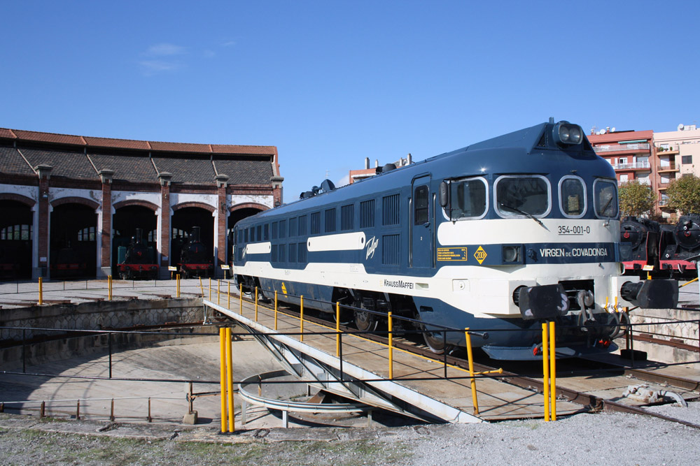 Locomotive Talgo 354-001 at swing bridge of Museu del Ferrocarril de Catalunya